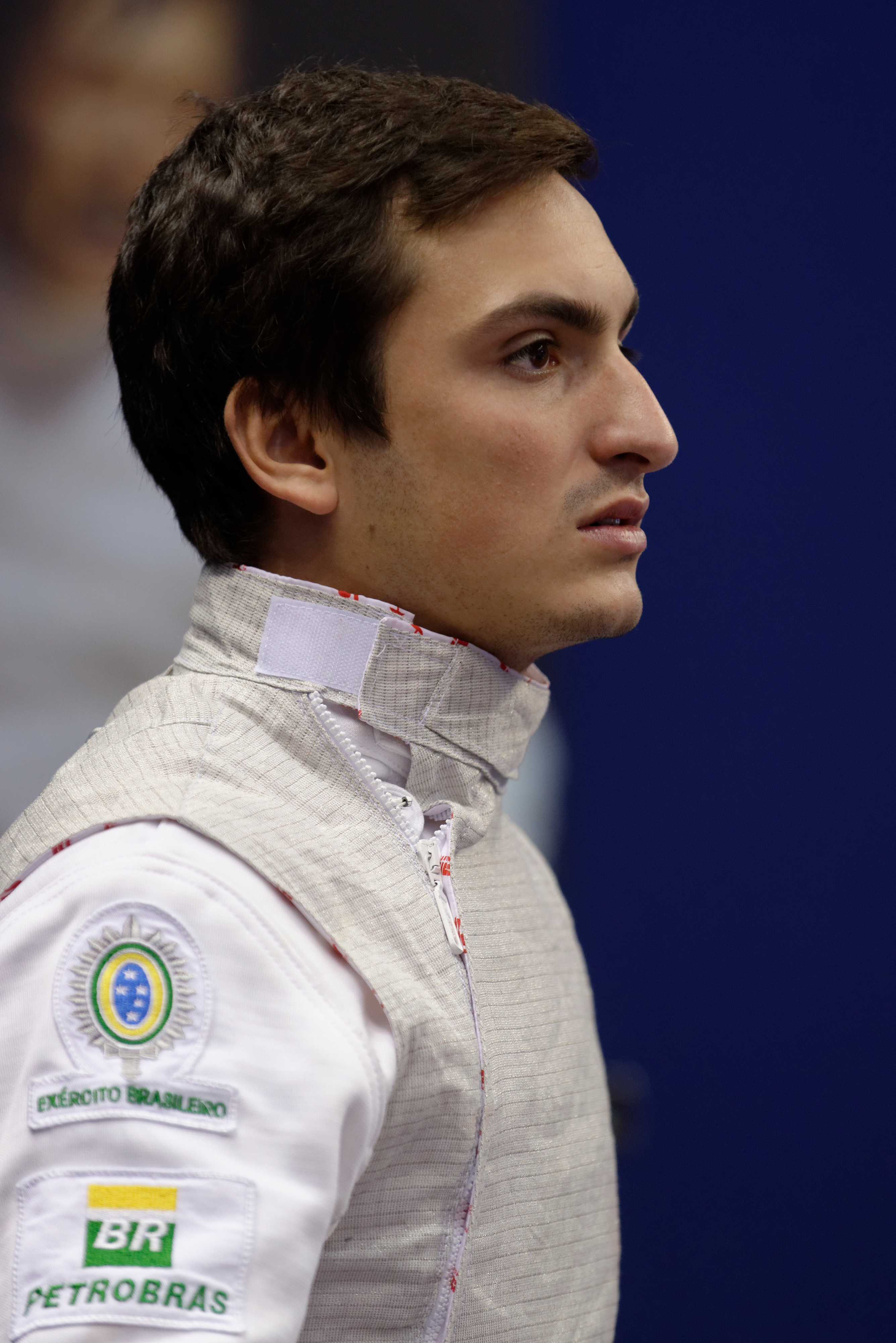 Guilherme Toldo of Brazil during their T16 match against Russia in the team event of the 2014 Challenge International de Paris (men's foil World Cup).